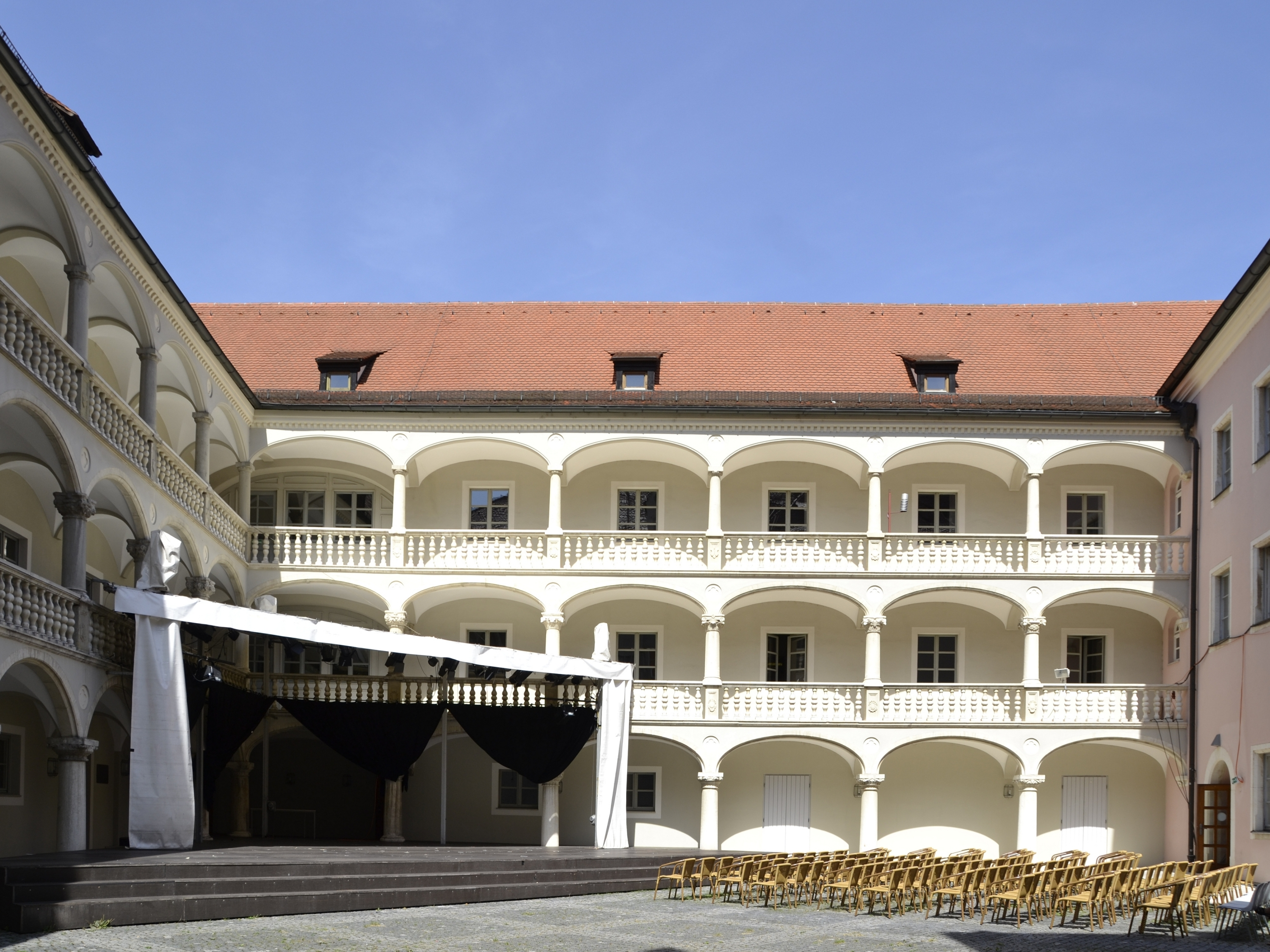 The Thon-Dittmer-Palais at the Haidplatz in Regensburg, Bavaria.